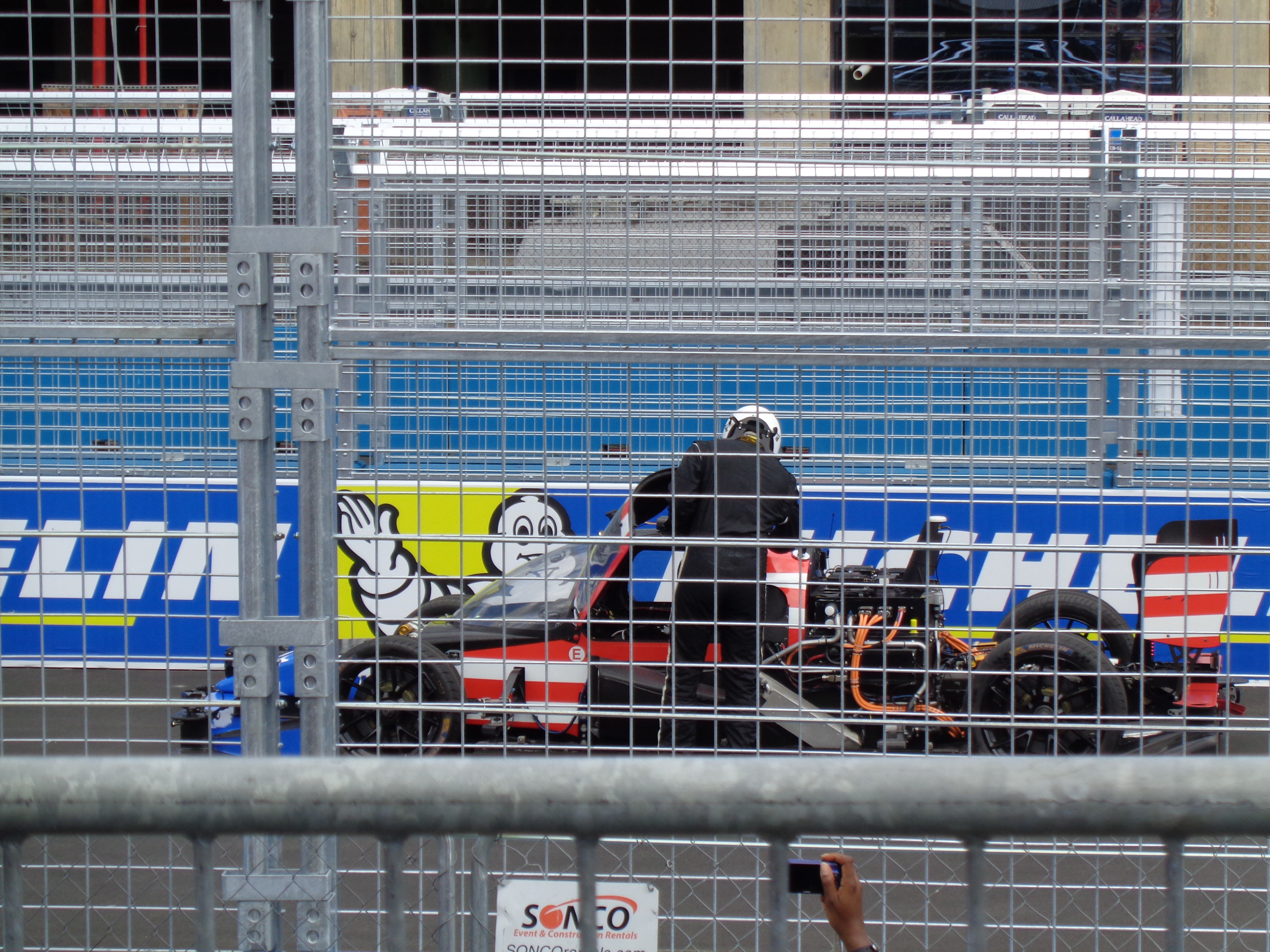 A self-driving race car, prototype to Roborace vehicles, during first race of the 2017 New York City ePrix in Red Hook, Brooklyn, on Saturday, July 15, 2017.